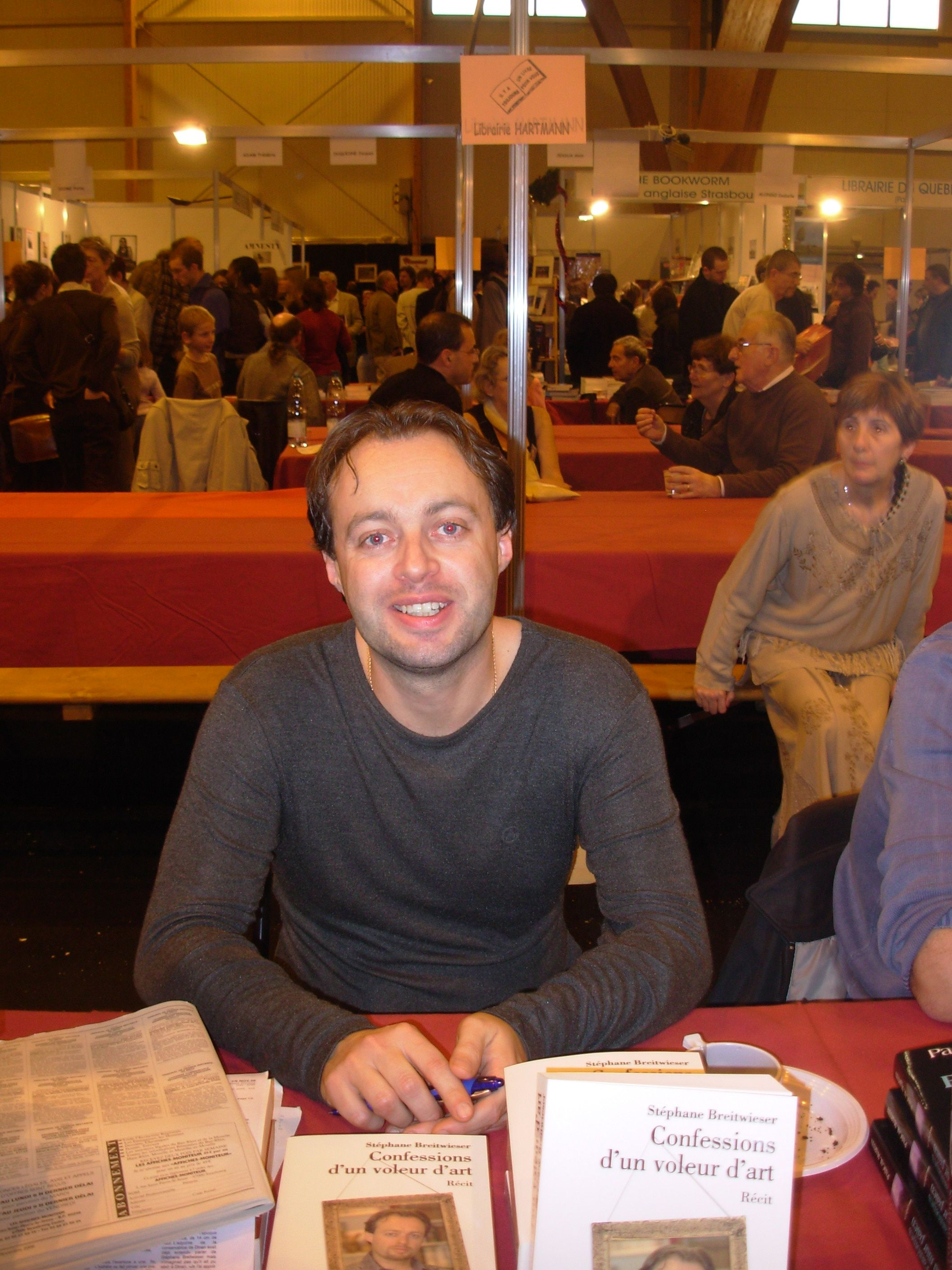 Stéphane Breitwieser in the "salon du livre de Colmar" (Haut-Rhin, France).